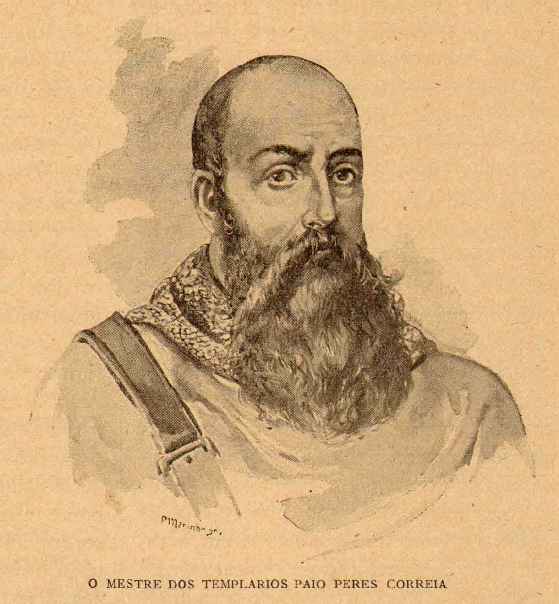 Illustration by Alfredo Roque Gameiro in the book História de Portugal, popular e ilustrada, by Manuel Pinheiro Chagas